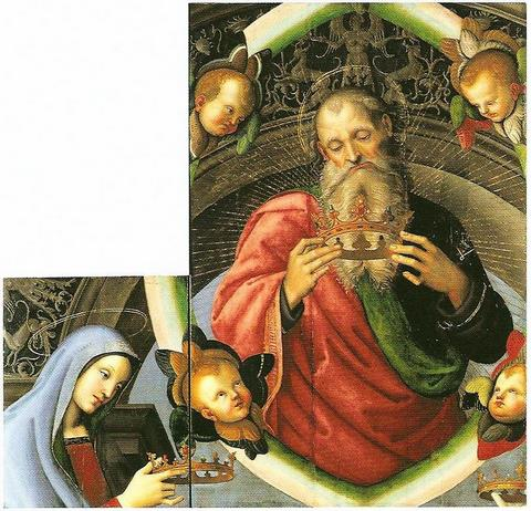 Altarpiece of San Nicola da Tolentino